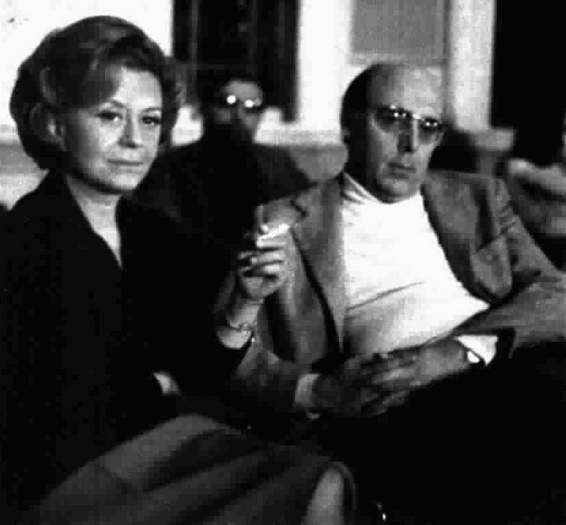 Italian actress Giulietta Masina and director Silverio Blasi